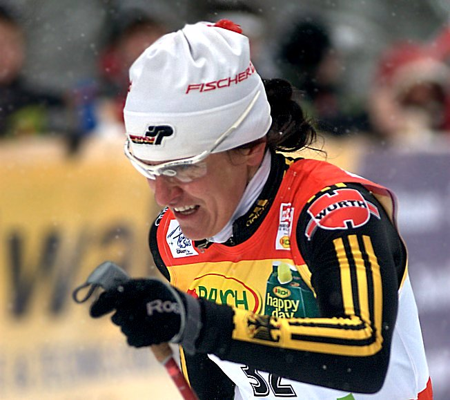 Manuela Henkel at the Tour de Ski 2010 in Oberhof